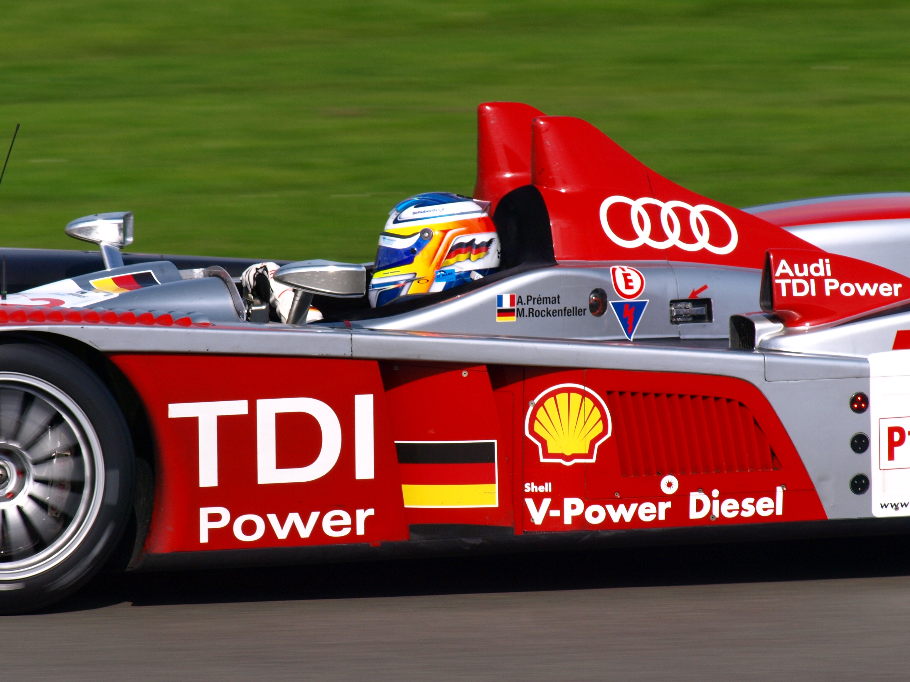 Mike Rockenfeller driving the Audi R10 at the 2008 1000km of Silverstone